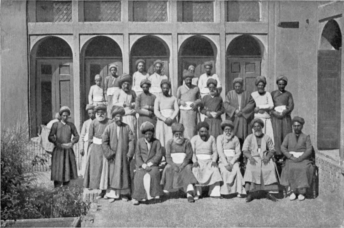 Ardeshir Meheban Irani and the Leading Members of the Anguman-i-Nasseri (Parsee National Assembly), Yezd. Photographed by Arnold Henry Savage Landor, late 1901 or early 1902. From page 394 of ACROSS COVETED LANDS.